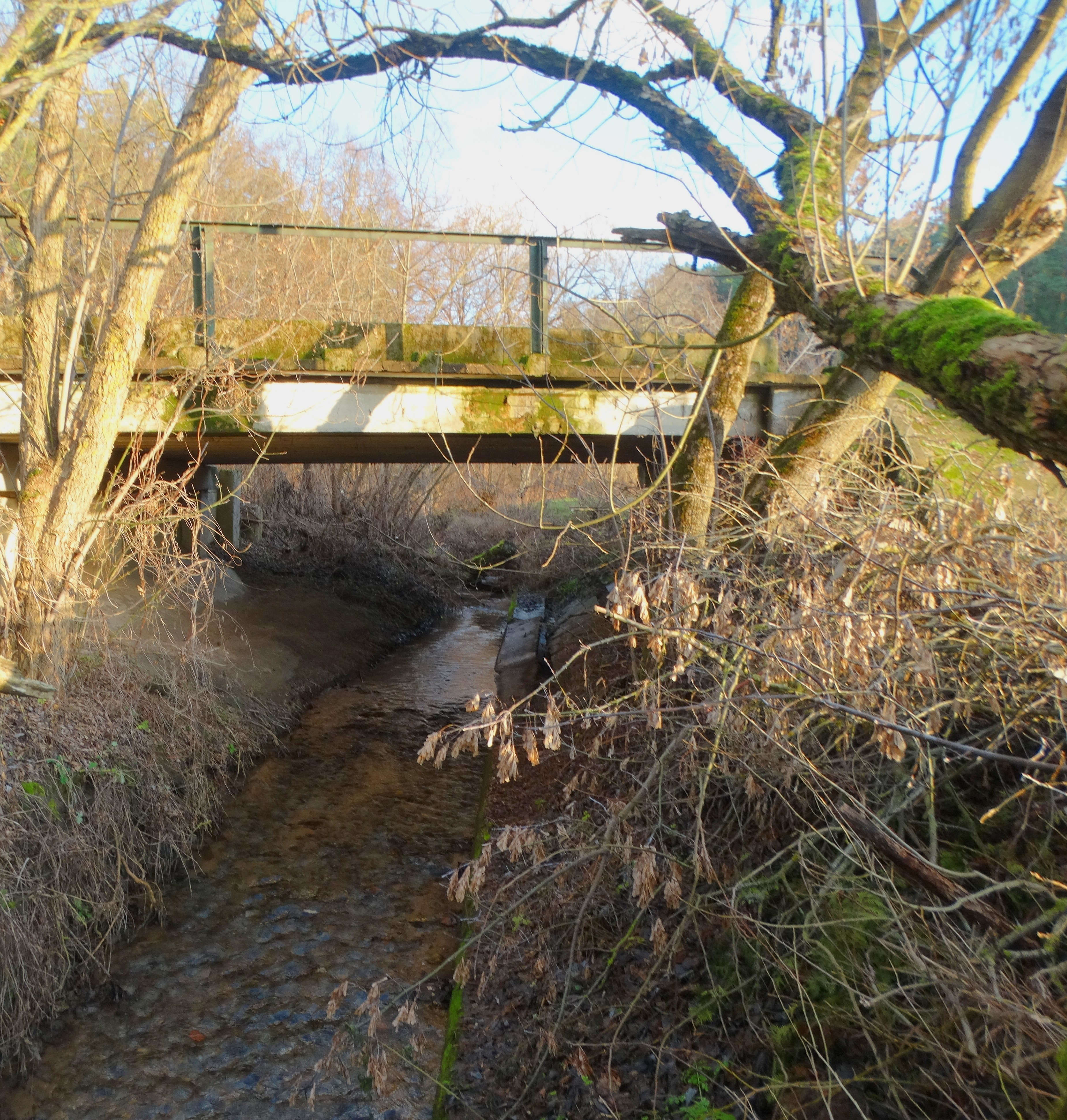 Karklė stream, Kriemala, Kaunas District, Lithuania